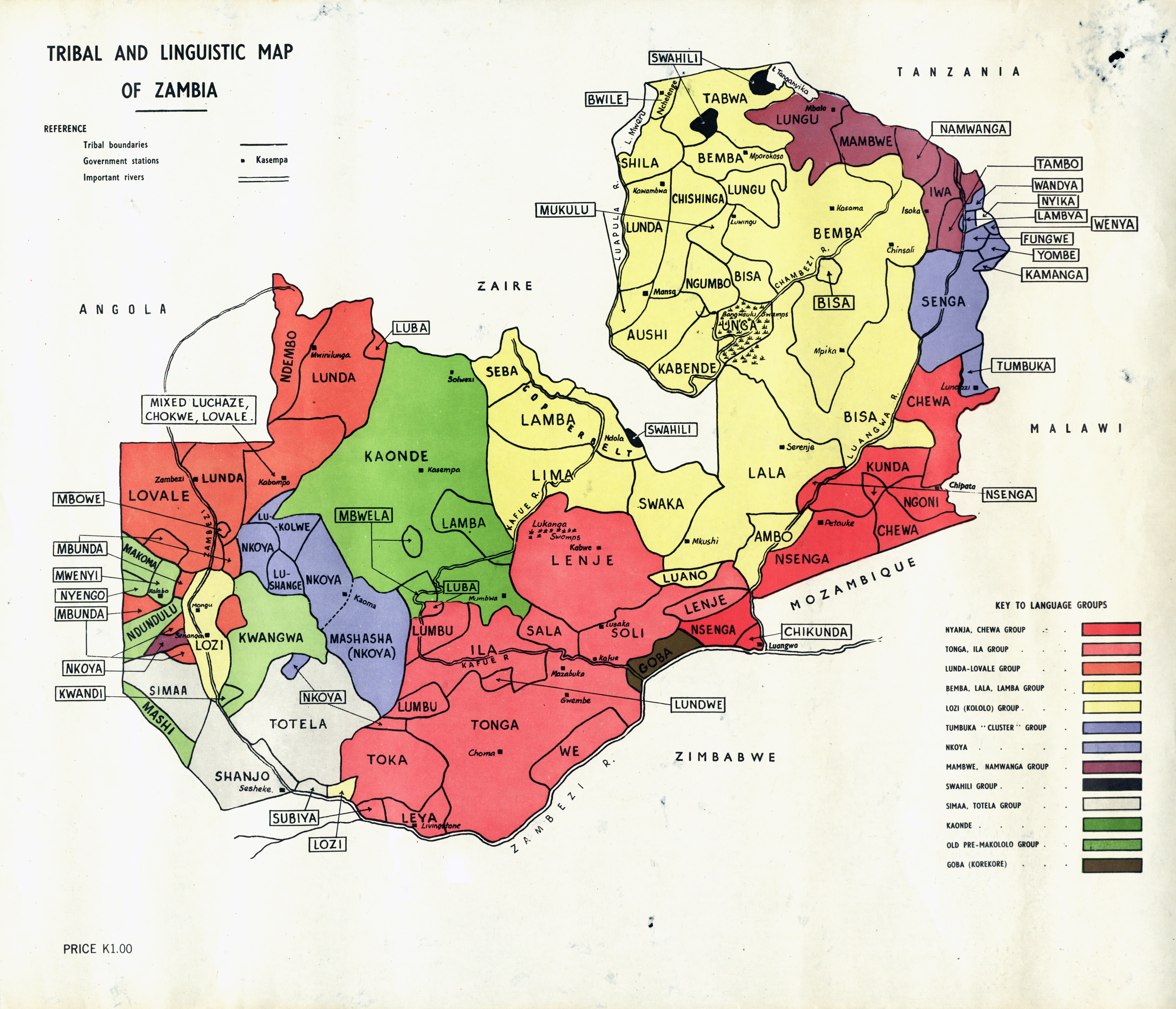 Tribal and linguistic map of Zambia - date unknown